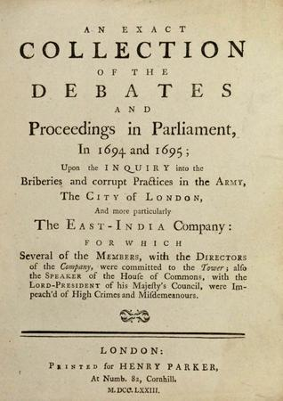 "An exact collection of the debates and proceedings in Parliament, in 1694 and 1695; upon the inquiry into the briberies and corrupt practices in the army, the City of London, and more particularly the East-India Company: for which several of the members, with the directors of the company, were committed to the Tower"